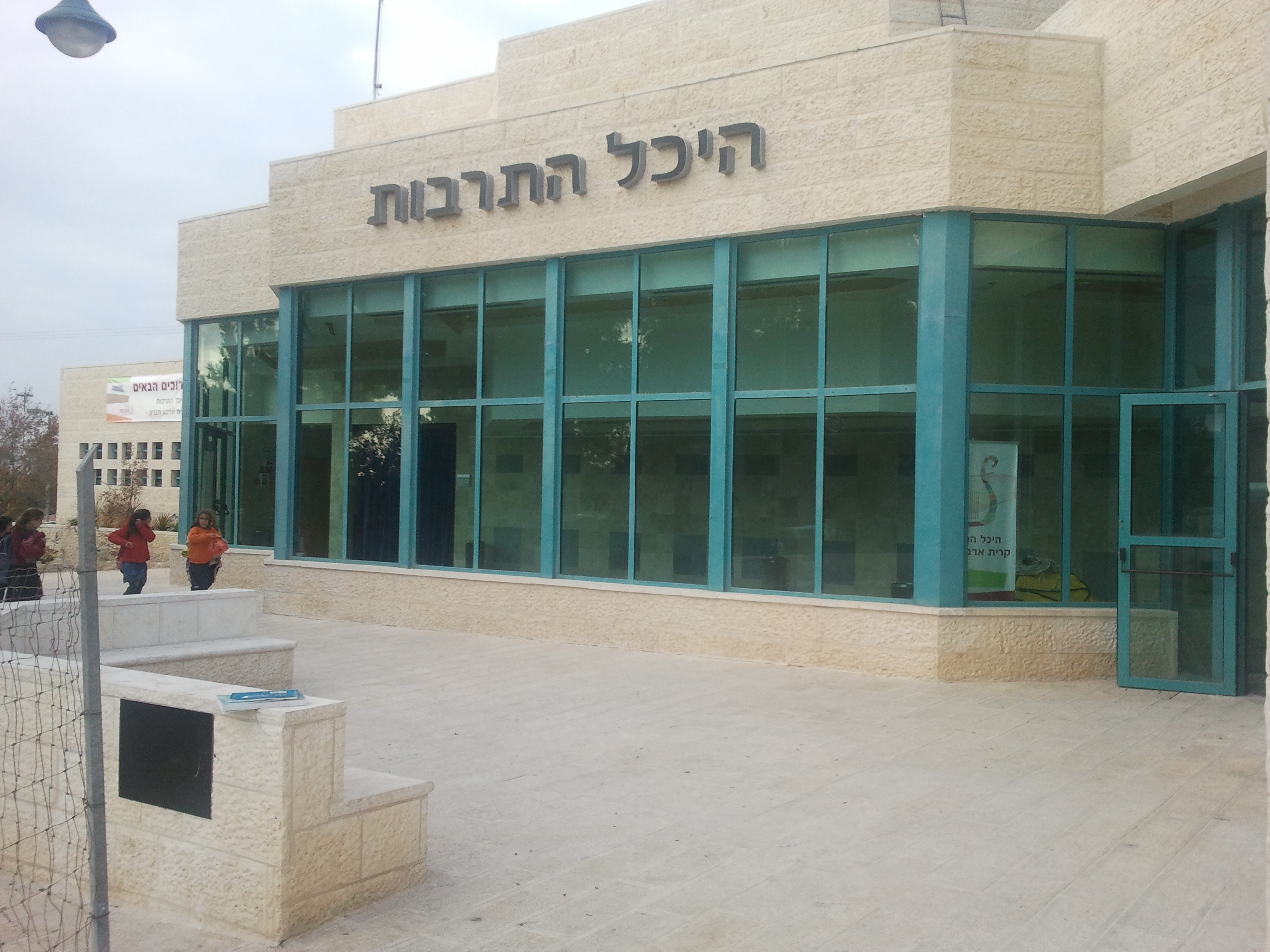 Culture center (Heichal Hatarbut) in Kiryat Arba, israel.